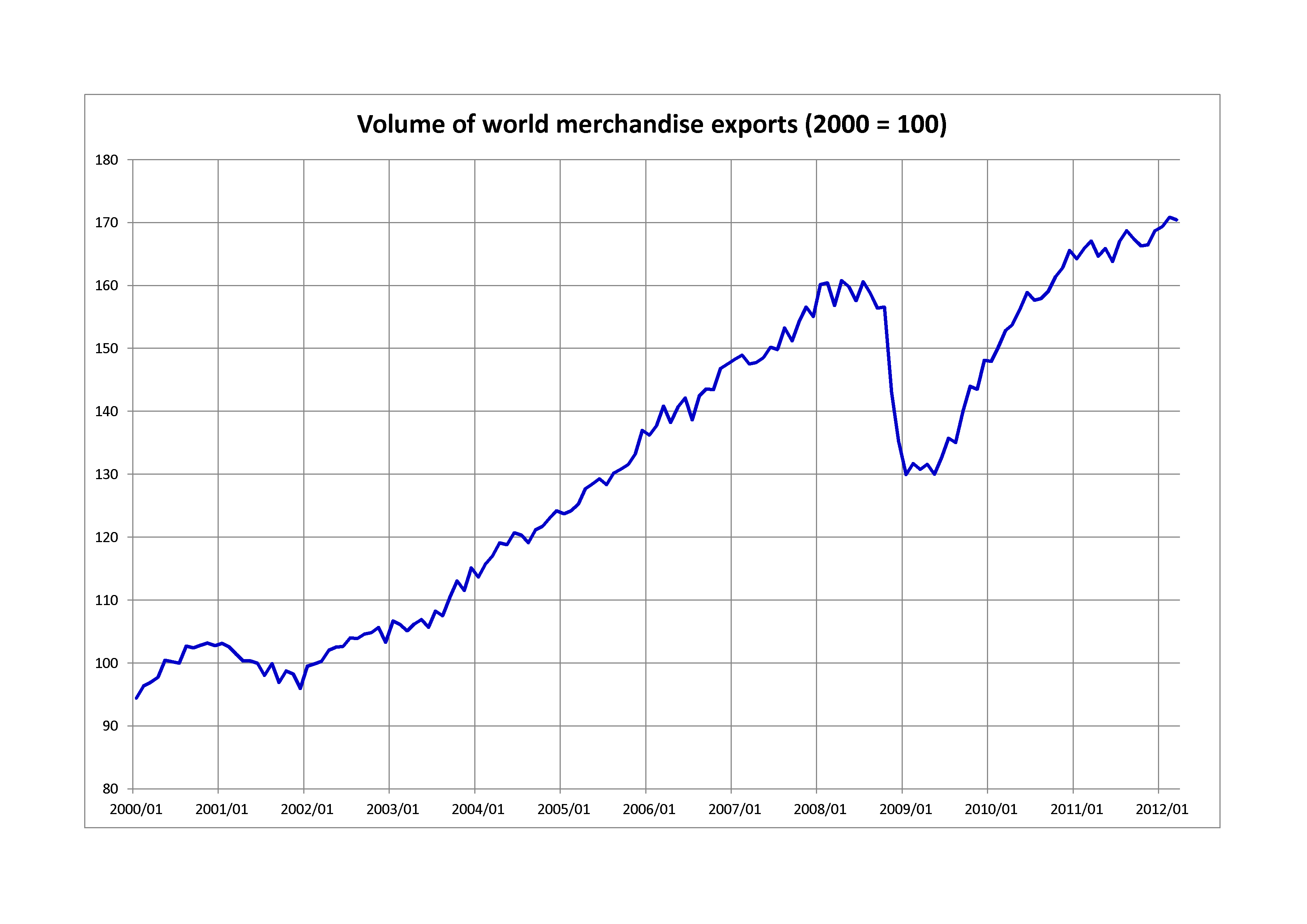 Volume of world merchandise exports from January 2000 to March 2012 (monthly data)